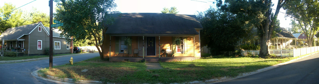 North Charlotte's Neighborhood in Highland Mill Village Houses